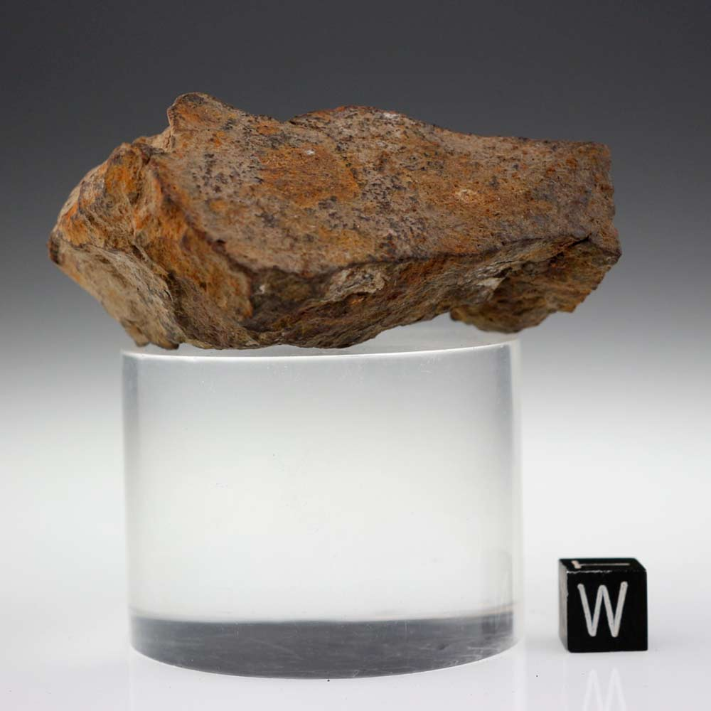 El Tiro meteorite